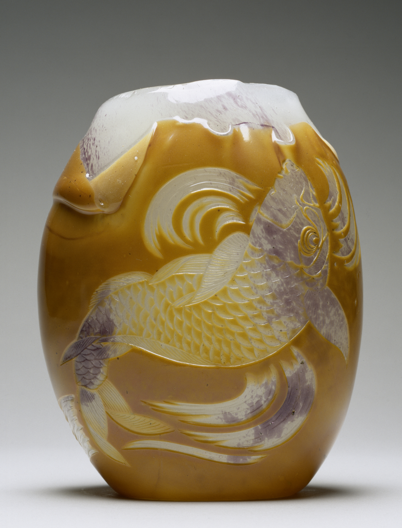 Commodore Perry's arrival in Japan in 1854 opened the country's borders to Western commerce. Within a few years, Western designers and artists, inspired by imported Japanese objects, began to interpret nature from a new perspective. Among the most innovative designers to adopt "Japonisme," as the phenomenon became known, was Eugène Rousseau. Initially, he specialized in ceramics, but in the late 1870s and early 1880s, Rousseau produced designs for glass manufactured by Appert Frères in Clichy. At the 1878 Exposition Universelle, he exhibited some remarkable examples of glass produced in collaboration with the glass factory of Appert Frères. In this instance, the image of the carp in the swirling waters was taken from an "ukiyo-e" print in Hokusai's "Manga," a series of woodblock prints based on the artist's sketches of nature.